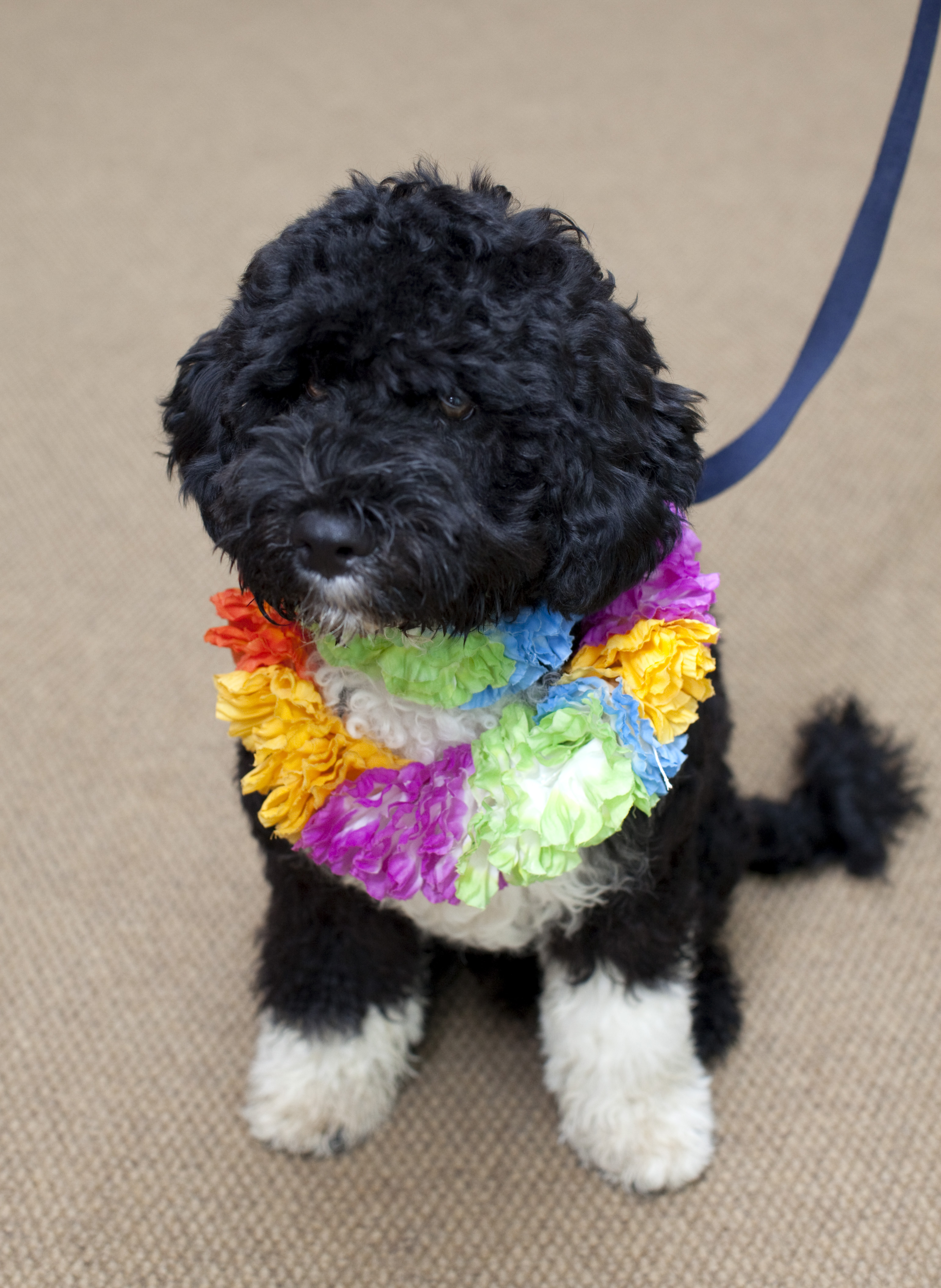 First Dog of the United States, Bo Obama